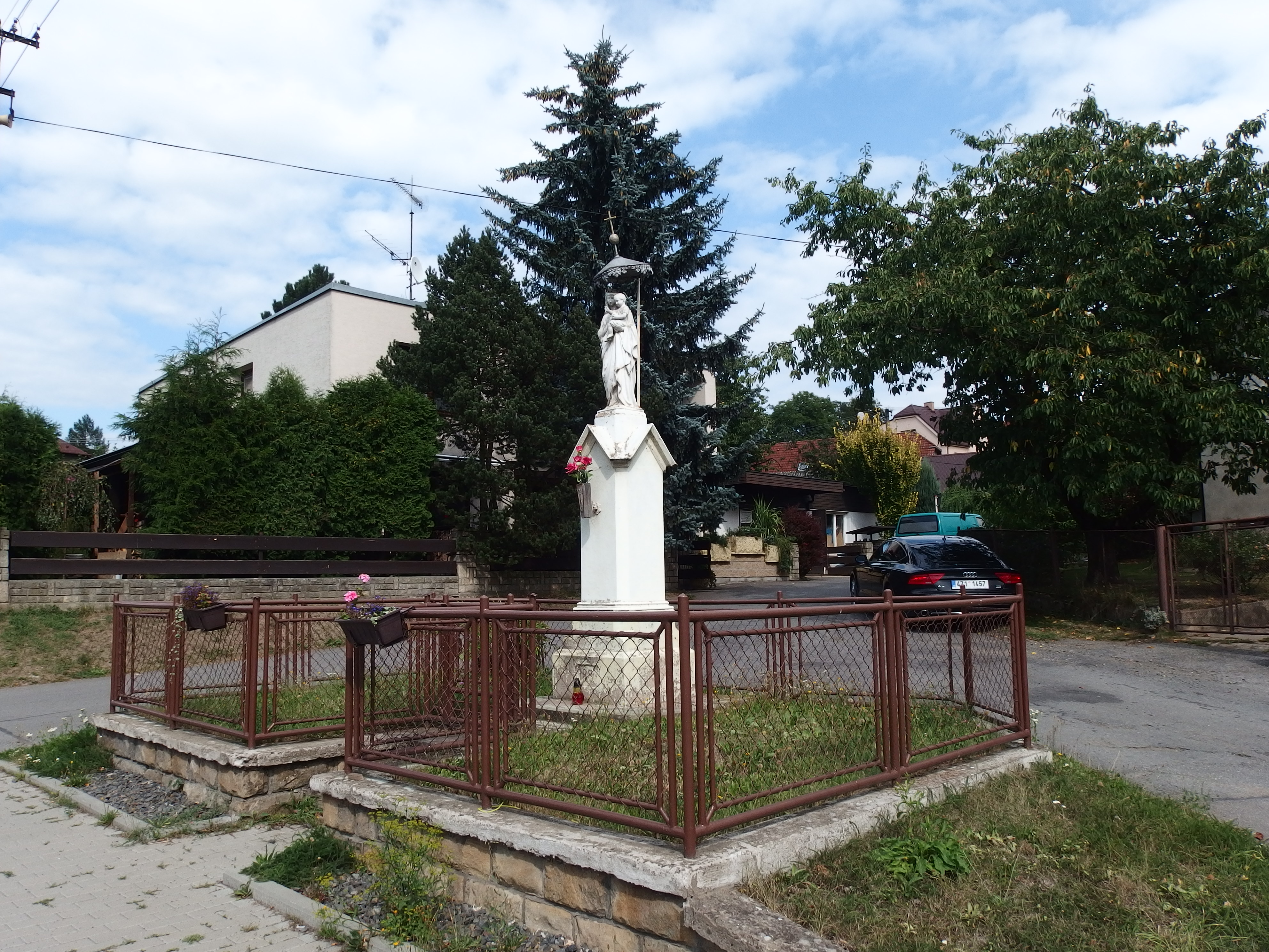 Valašské Meziříčí, Czech Republic, part Bynina.